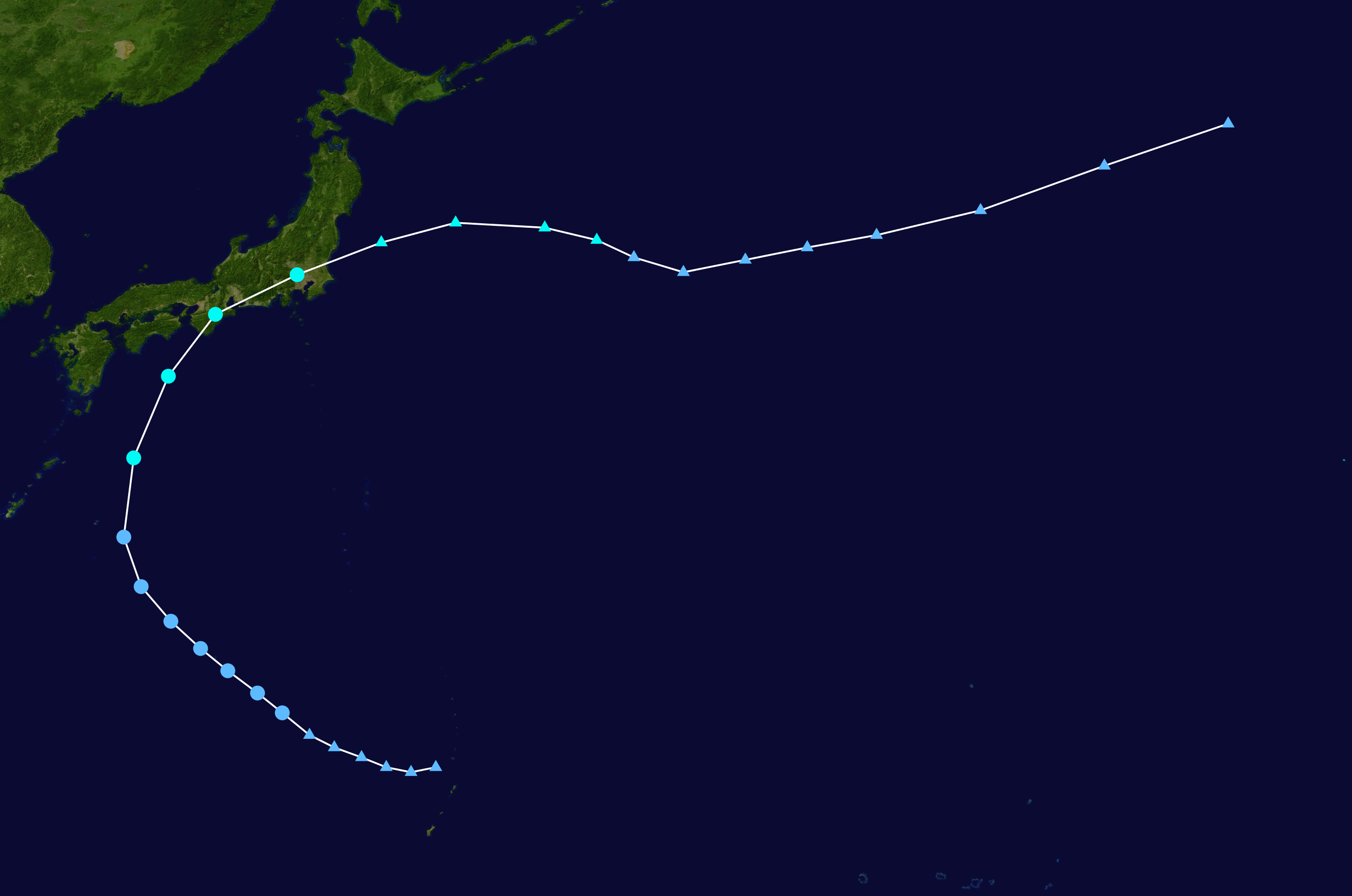 Track map of Tropical Storm Carmen of the 1971 Pacific typhoon season. The points show the location of the storm at 6-hour intervals. The colour represents the storm's maximum sustained wind speeds as classified in the Saffir–Simpson hurricane wind scale (see below), and the shape of the data points represent the nature of the storm, according to the legend below. Saffir–Simpson hurricane wind scale Tropical depression≤38 mph≤62 km/h Category 3111–129 mph178–208 km/h Tropical storm39–73 mph63–118 km/h Category 4130–156 mph209–251 km/h Category 174–95 mph119–153 km/h Category 5≥157 mph≥252 km/h Category 296–110 mph154–177 km/h Unknown Storm typeTropical cycloneSubtropical cycloneExtratropical cyclone / Remnant low / Tropical disturbance